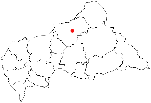 N'Délé, Central African Republic Location Map; created with the GIMP. Made by User:Acntx.